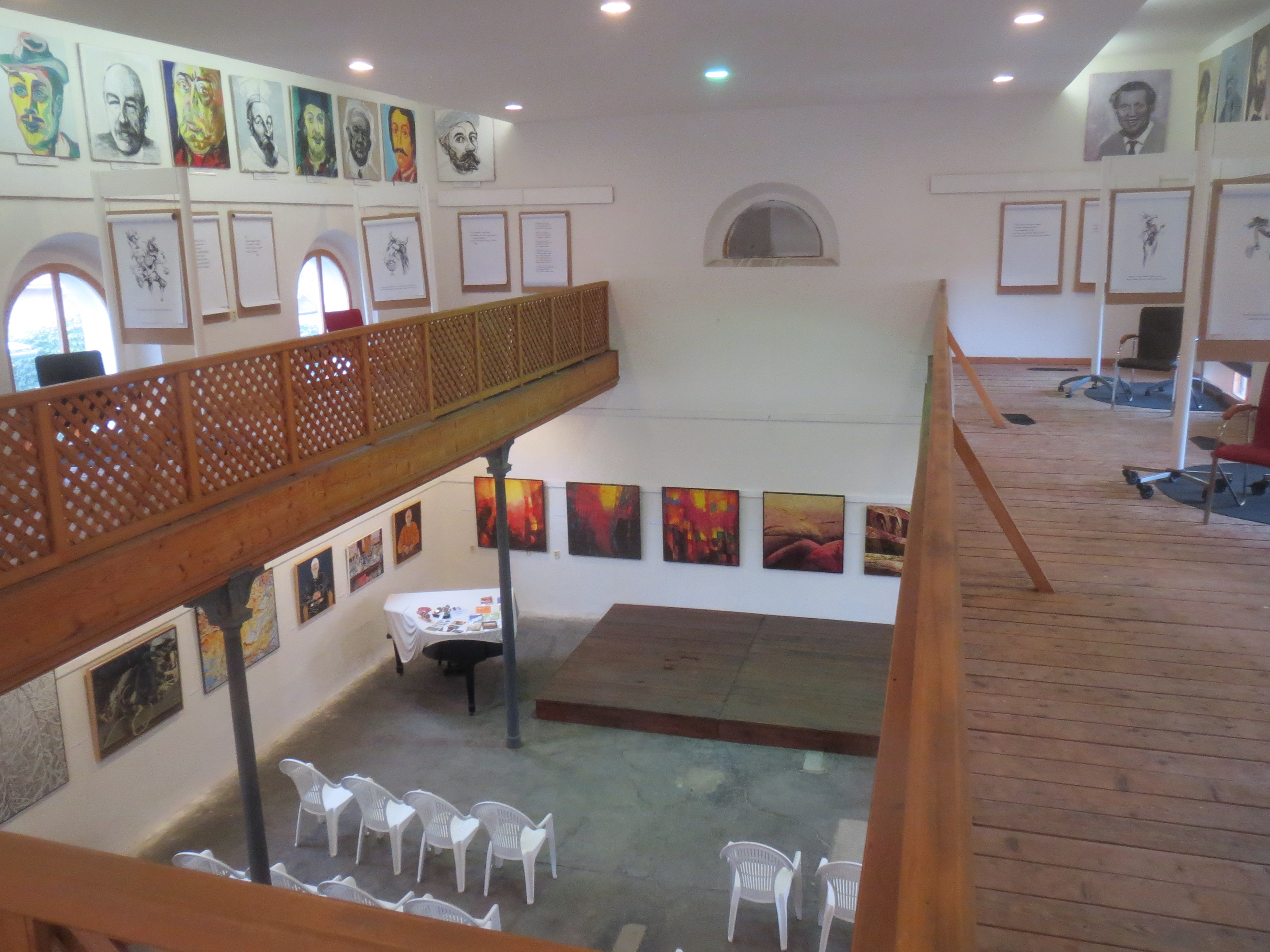 Interior Status Quo Synagogue Šahy